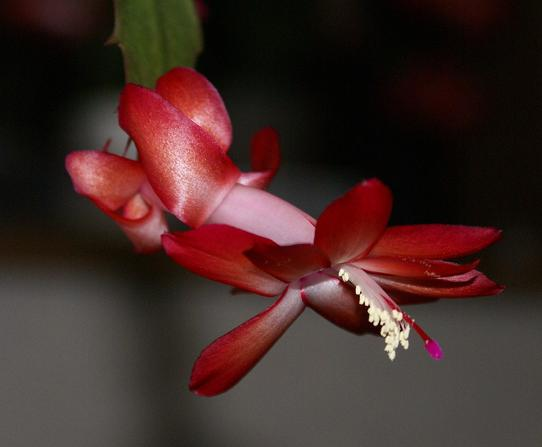 Schlumbergera inflorescence